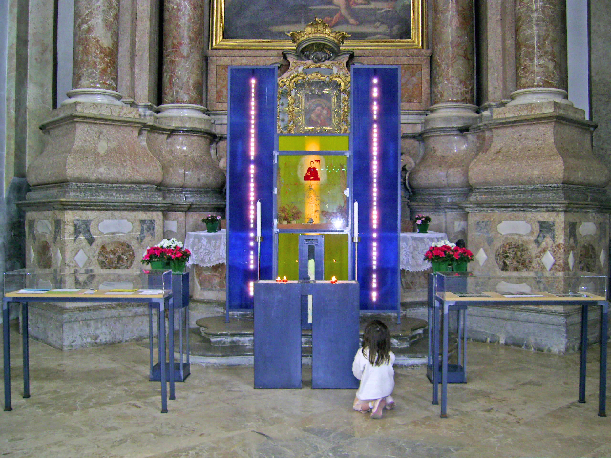 Photo taken by Myke Rosenthal-English on 18th May 2007 in St Mang Basilica, Füssen, Germany. It is a photo of the Shrine of Blessed Francis Xavier Seelos